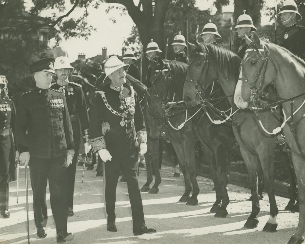 Photographer: George Jackman for Queensland Newspapers Pty Ltd Location: Brisbane, Queensland, Australia Date: Ca. 1940 View this image at the State Library of Queensland: Information about State Library of Queensland’s collection: You are free to use this image without permission. Please attribute State Library of Queensland.